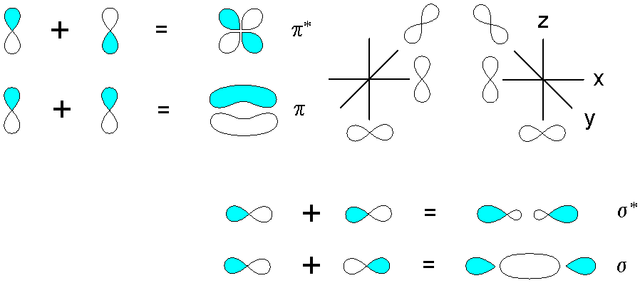 MO_diagram_pi_orb